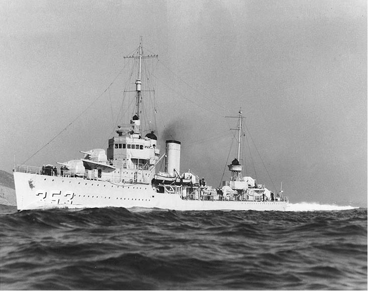 The U.S. Navy destroyer USS Dale (DD-353) underway, circa 1935-1937.